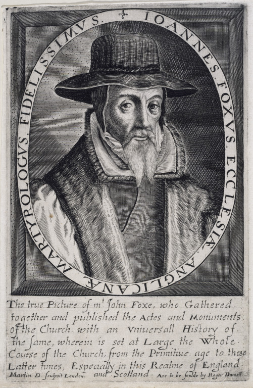 Engraving of John Foxe by Martin Droeshout II (b.1601)